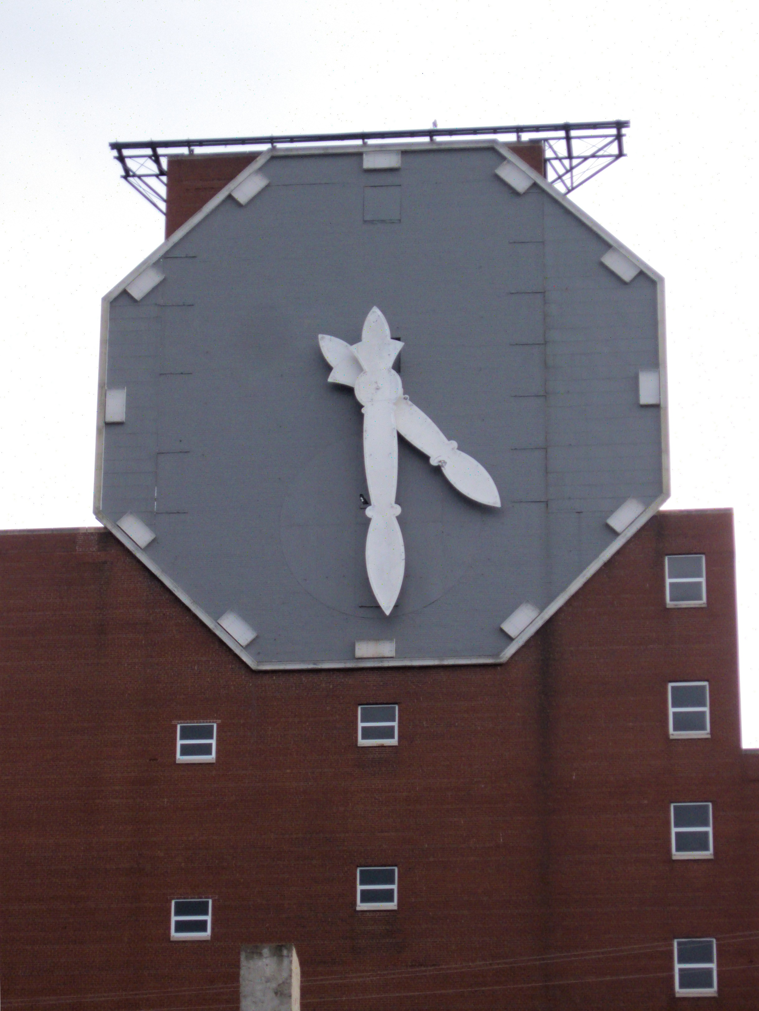 The Duquesne Brewery clock in 2019, with no advertising on the face